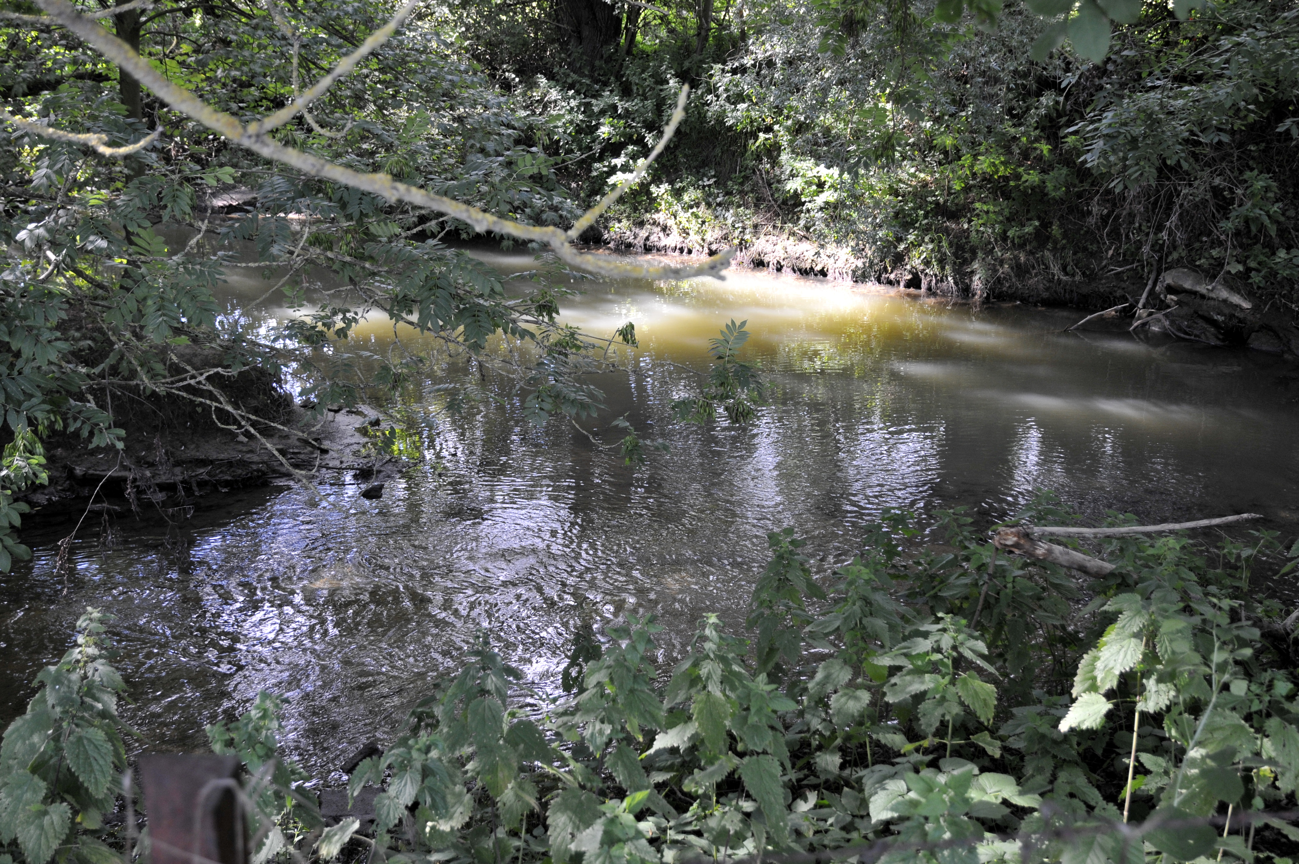 The Diddelengerbaach joins the Alzette river in Bettembourg